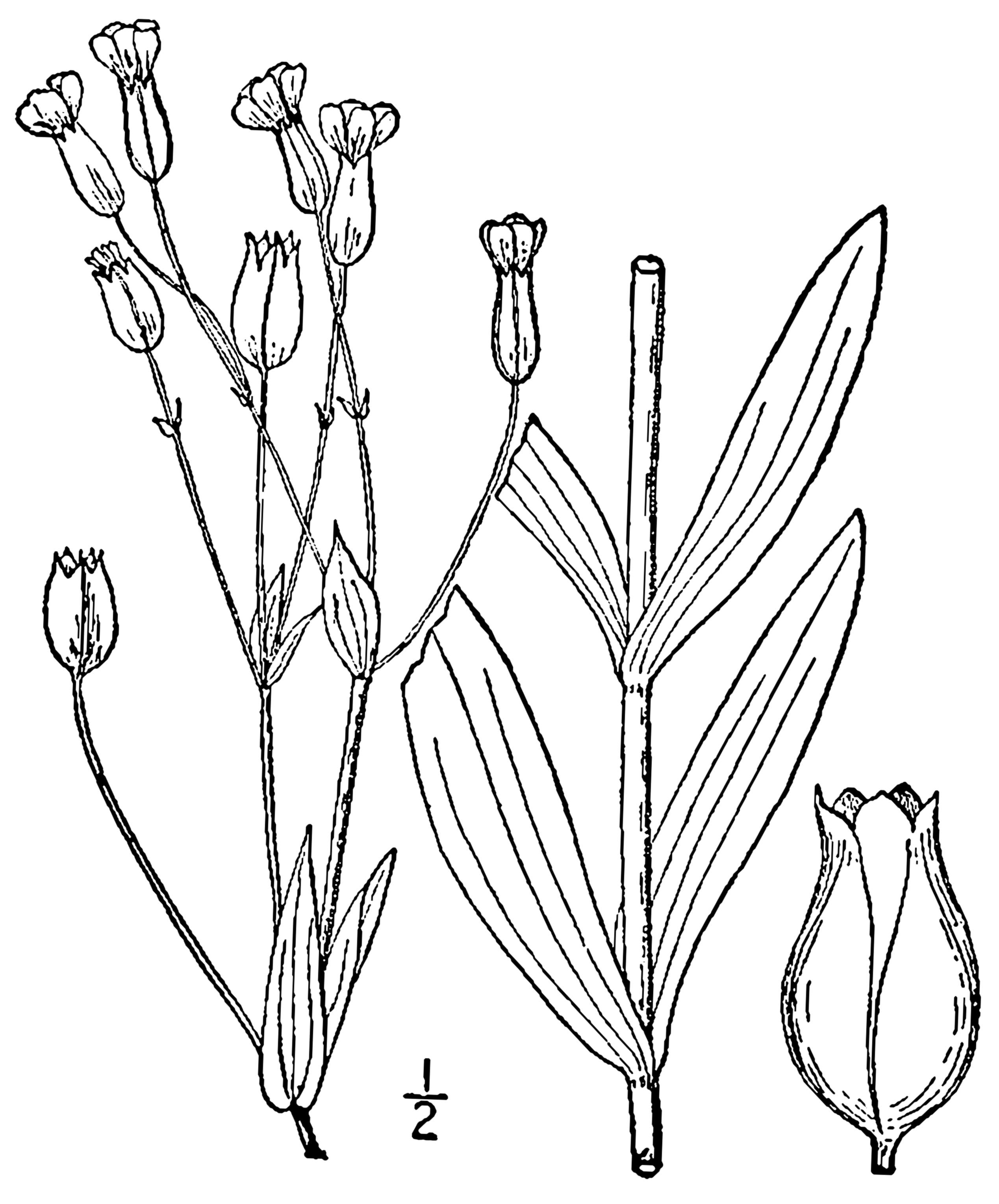 Vaccaria hispanica (Mill.) Rauschert - cow soapwort (as Vaccaria vaccaria (L.) Britton)